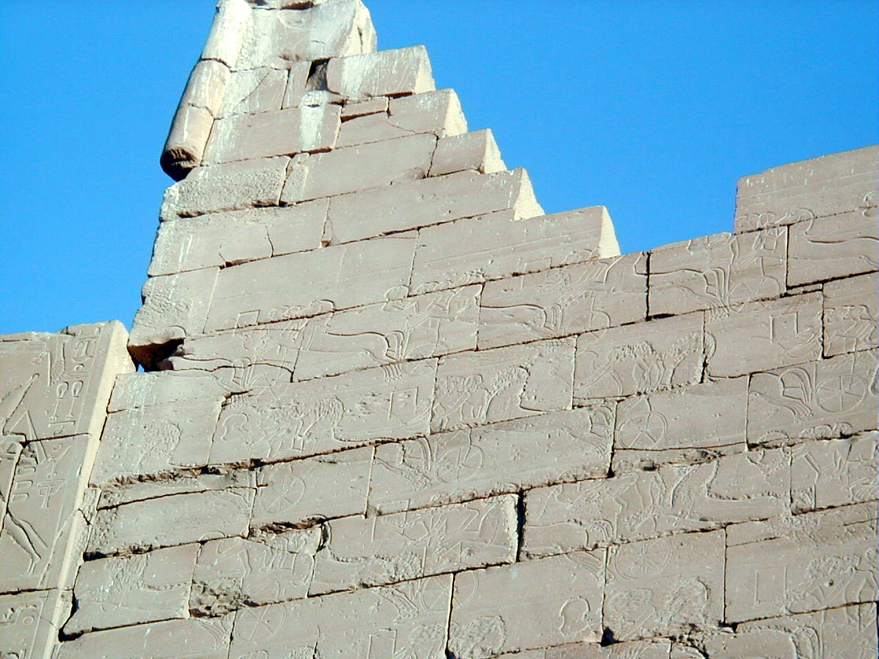 Photo of engraved battle scenes on the Ramesseum's First Pylon, Thebes. The Ramesseum has some of the Egyptian world's oldest surviving pylons. A pylon, or monumental portal to an ancient Egyptian temple, is usually comprised of two massive upward tapering walls flanking and perpendicular to the temples entrance. The First Pylon of the Ramesseum is approximately 69m long and 22m high, and marks the entrance to the Main Temple and the First Courtyard. Scenes from the Battle of Kadesh in Syria (in year 5 of Ramesses' reign) engraved into this wide outer pylon of the Ramesseum glorify the King's military might, despite that fact that he lost the battle of Kadesh. However, Ramesses' eventual triumph against Syria, starting in year 8 of his rule, finally subjugated the Hittites, many of whom became laborers contributing to Ramesses' monumental building projects. Ramesses' great military might arguably marks the greatest peak of Egypt's imperial power.